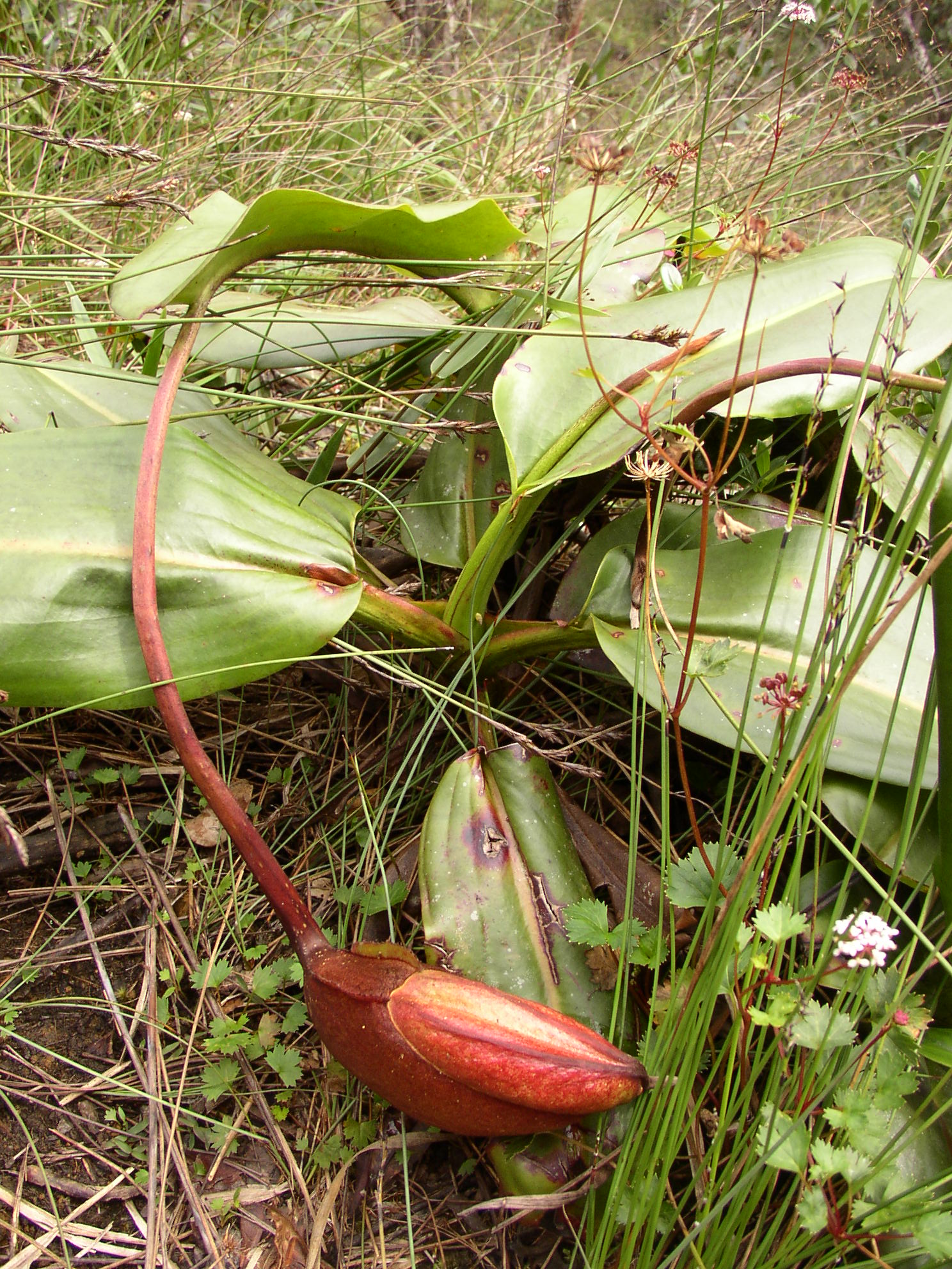 Nepenthes rajah